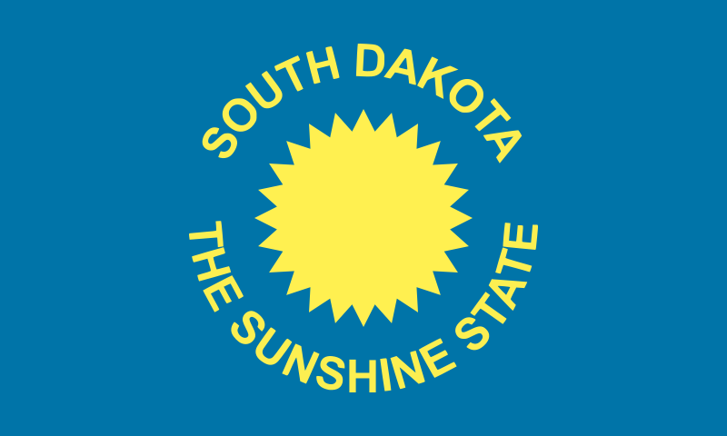 Flag of South Dakota (1909-1963)